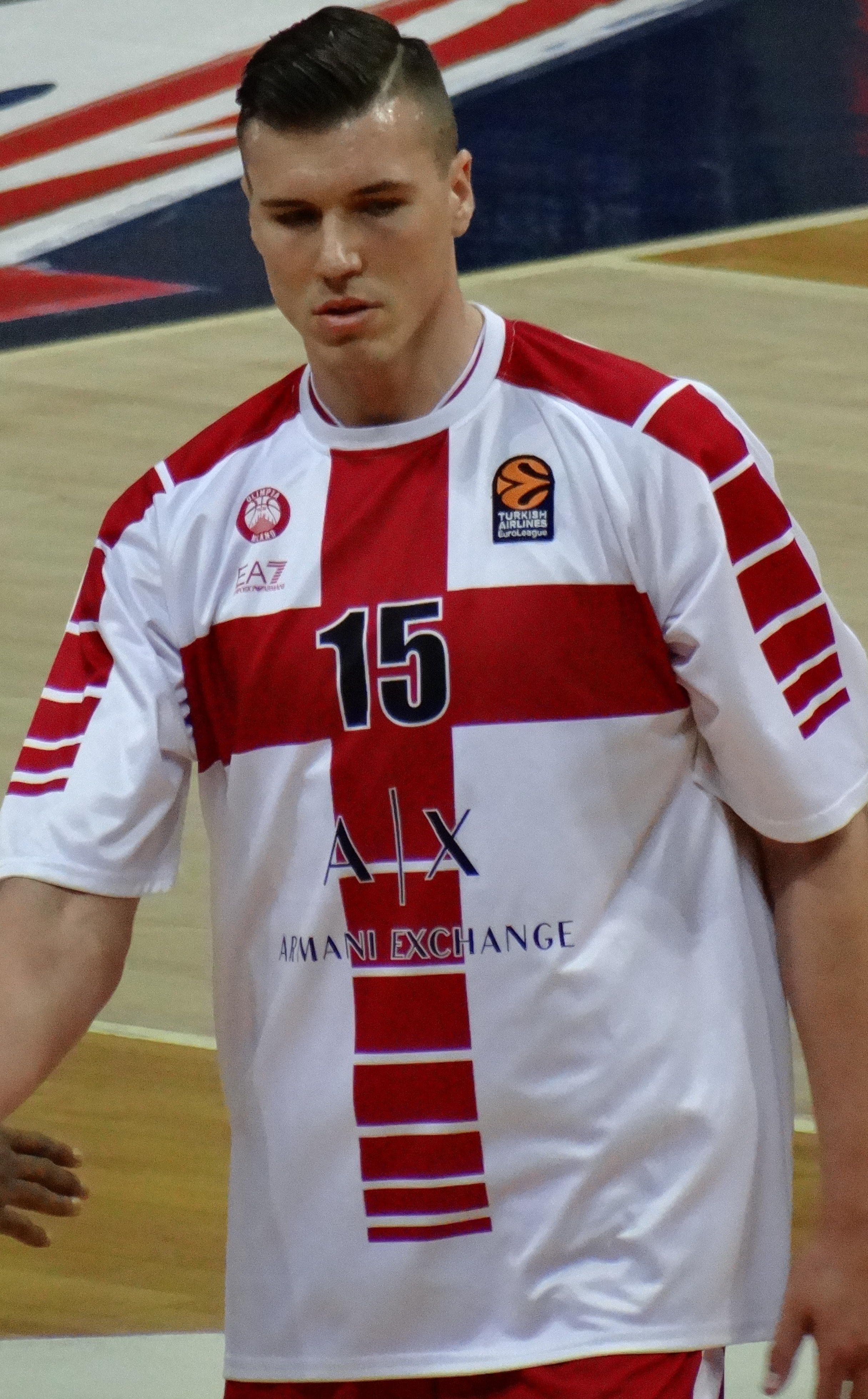 Kaleb Tarczewski 15 AX Armani Exchange Olimpia Milan 20180222